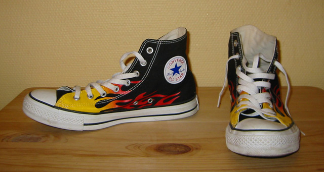 Converse Chucks in black with flames